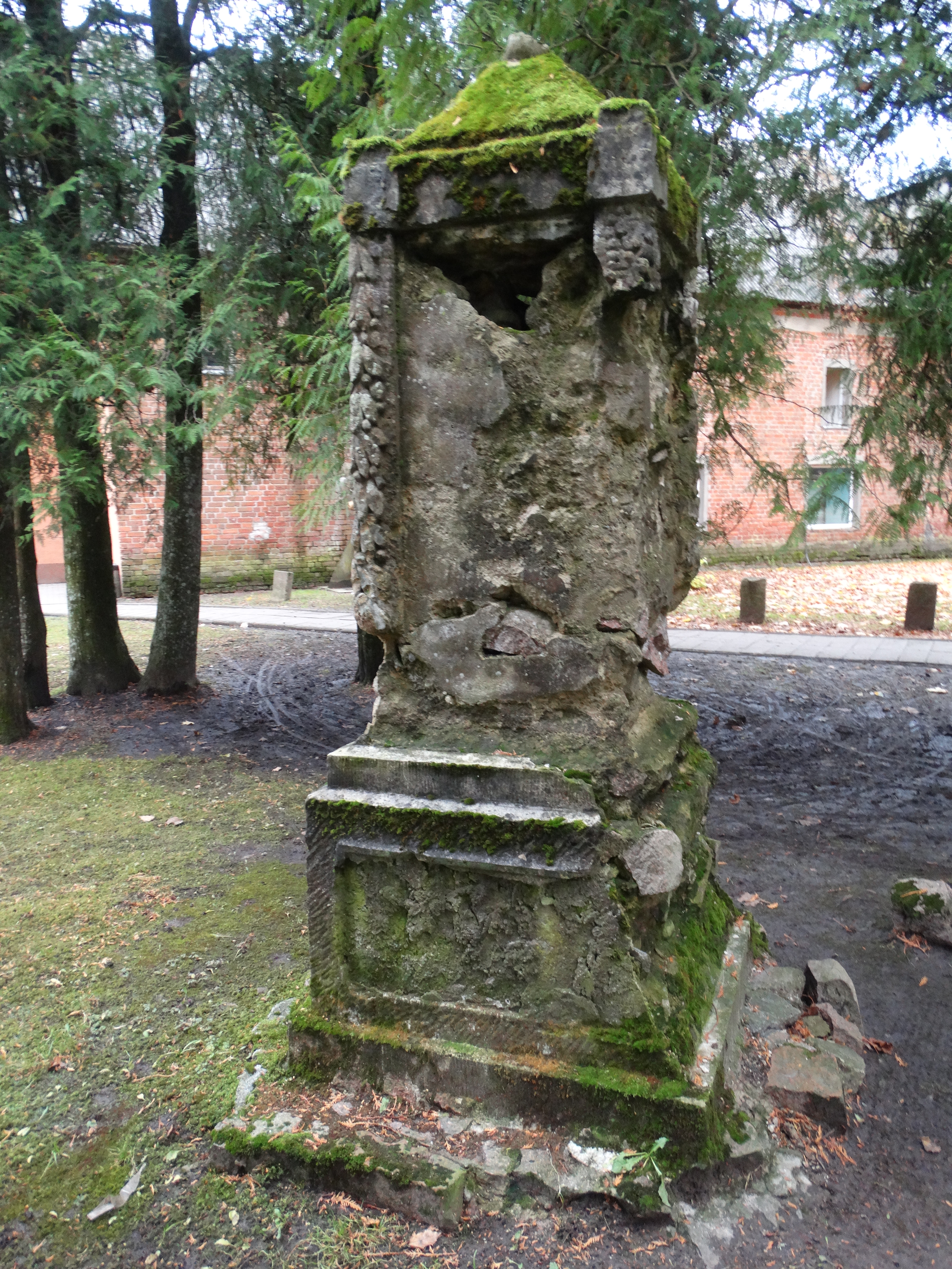 Monument by the former Lutheran church, Pašyšiai, Šilutė district, Lithuania